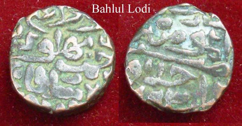 A coin of Bahlul Lodi from personal collection